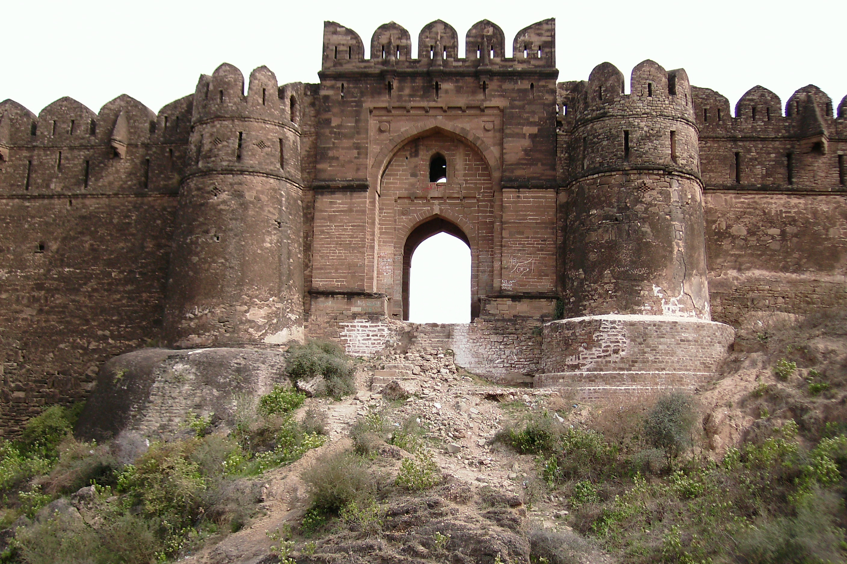 Rohtas Fort This is a photo of a monument in Pakistan identified as the PB-30